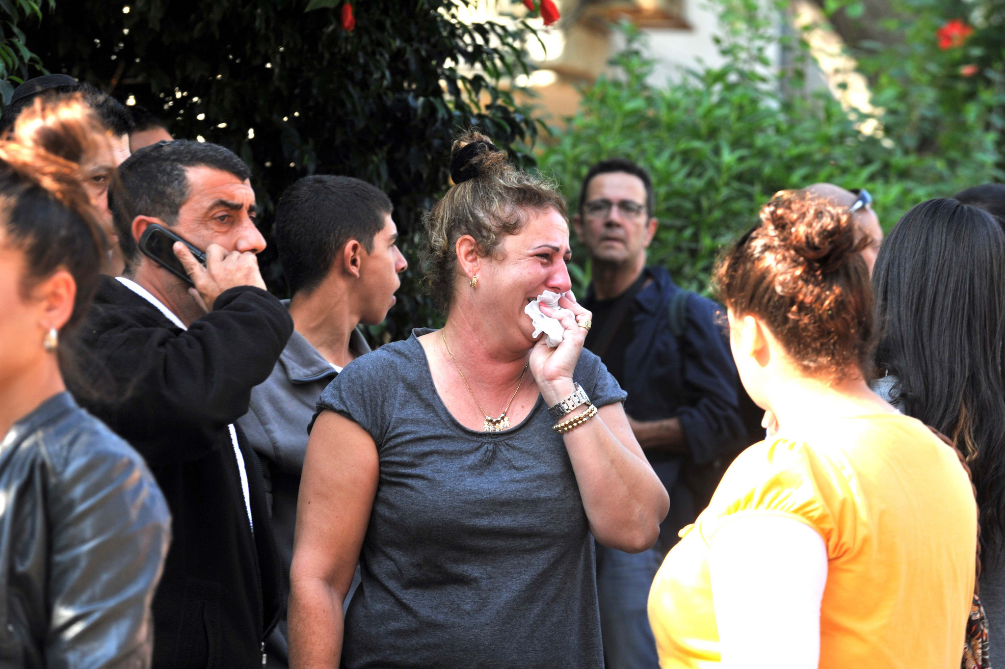 Photos by David Katz / The Israel Project